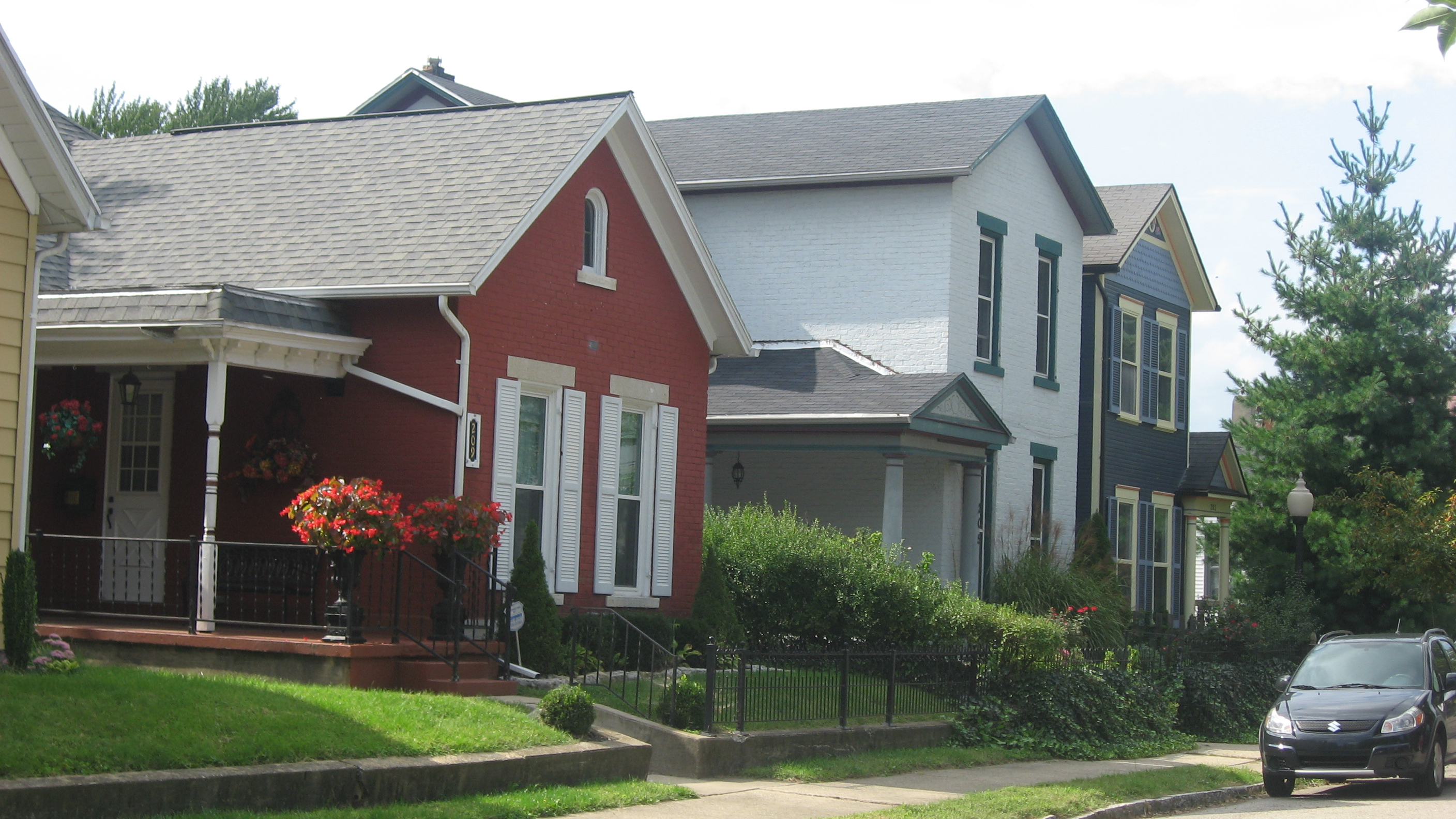 Houses on the western side of the 200 block of Perrine Street in Dayton, Ohio, United States. This block is part of the South Park Historic District, a historic district that is listed on the National Register of Historic Places.